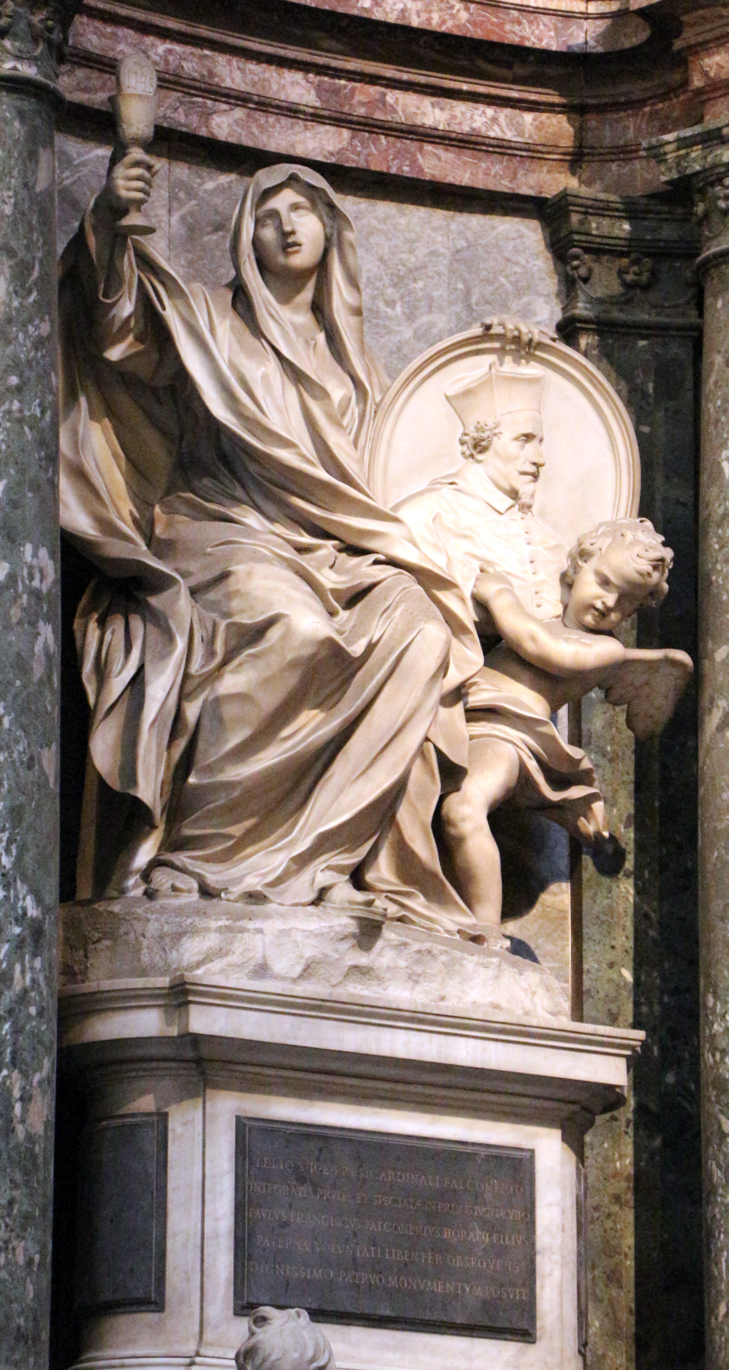 San Giovanni dei Fiorentini (Rome) - Interior